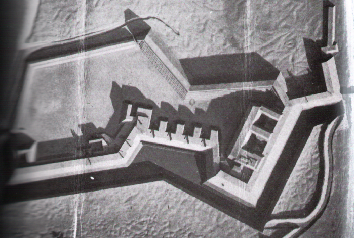 Model of Fort Wagner / Morris Island (South Carolina)